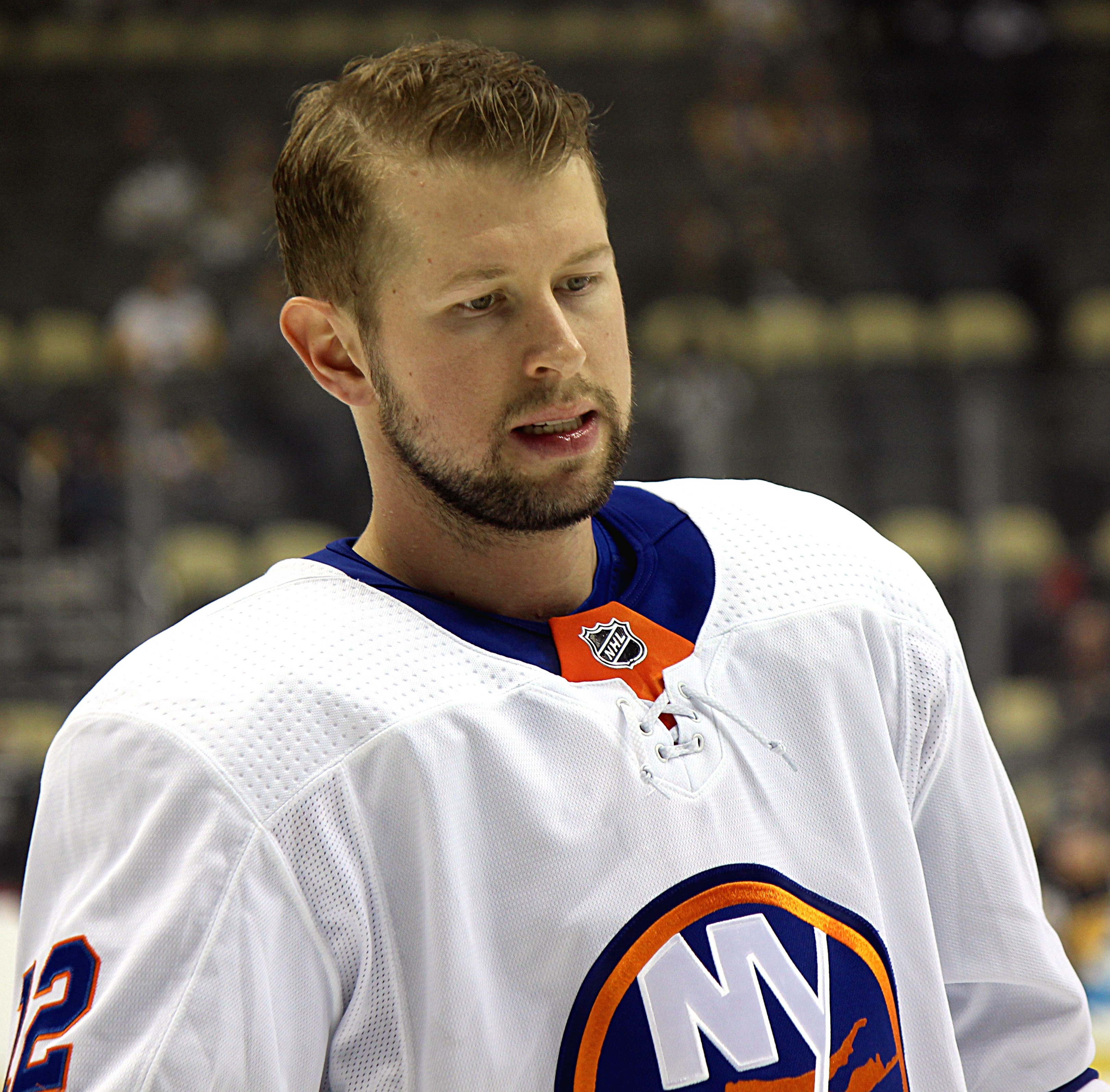 New Yorks Islanders forward Josh Bailey during a game against the Pittsburgh Penguins at PPG Paints Arena in Pittsburgh, PA. Saturday, March 3, 2018.